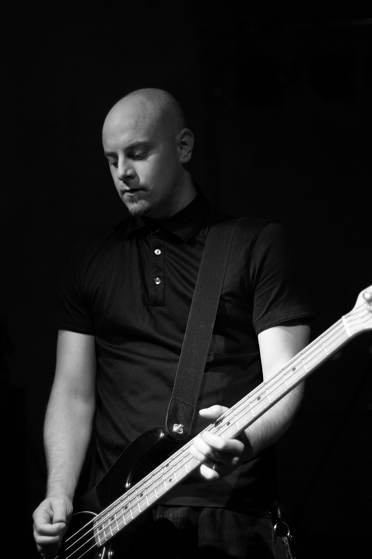 Jeff Caxide, bassist of Californian post-metal band Isis, during a concert at Stuttgart venue Wagenhallen on 2009-07-09. View in my concert gallery.